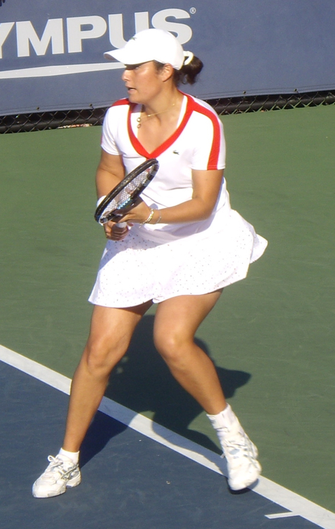 Stephanie Cohen Aloro - US open 2007